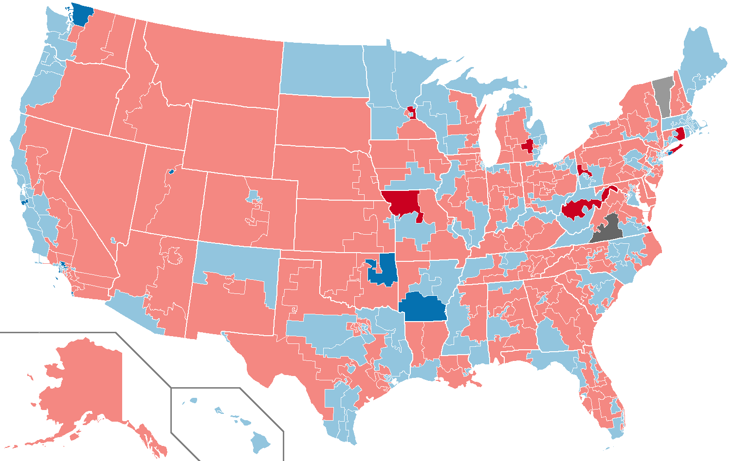 This map shows the results of the 2000 U.S. House Elections.